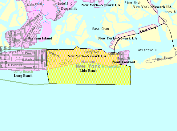 U.S. Census 2000 reference map for Lido Beach